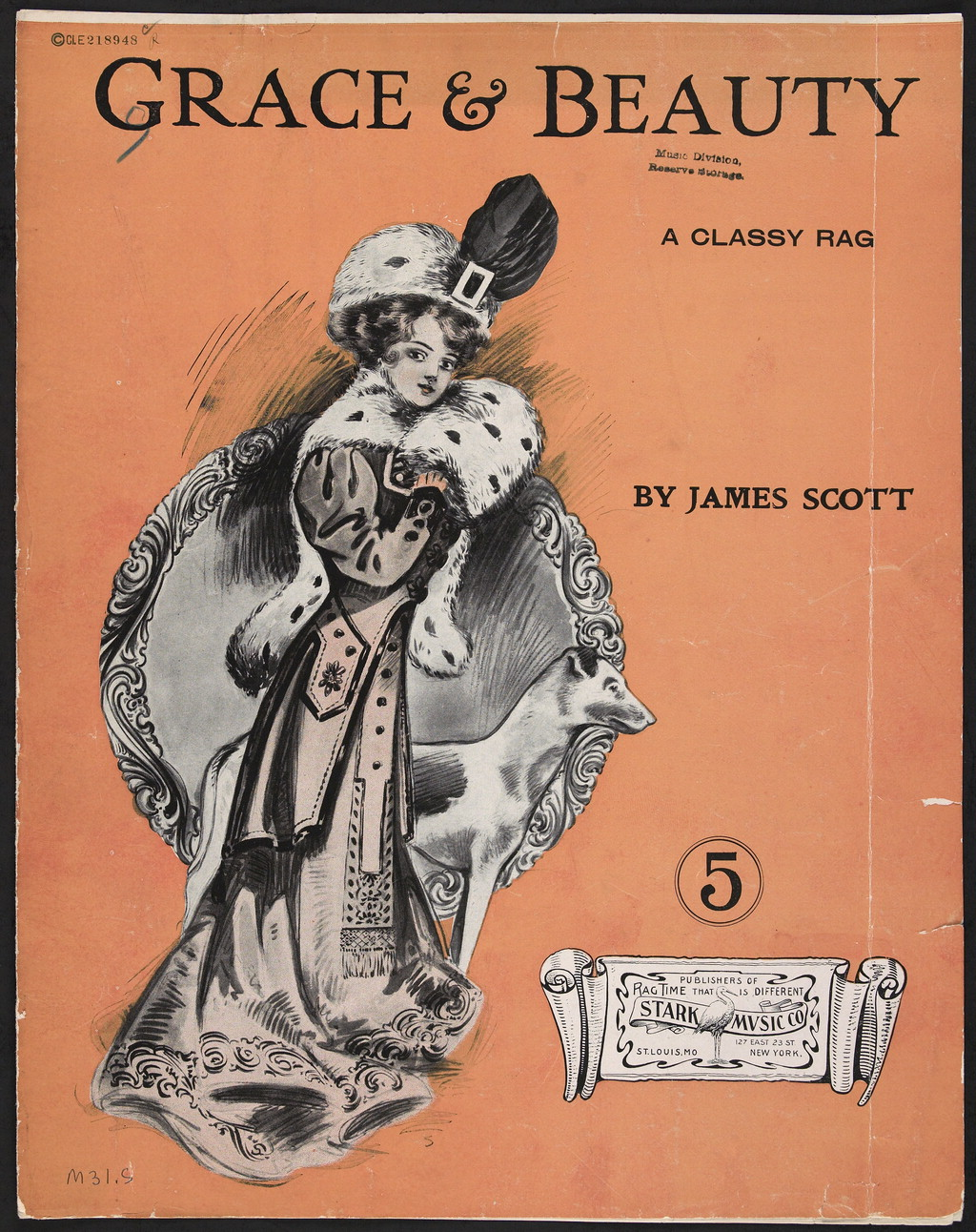 "Grace and Beauty" (sheet music) Page 1 of 5